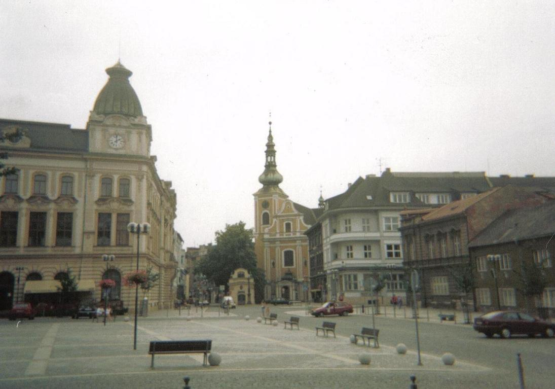 Old Town in Přerov, Olomouc Region, Czech Republic